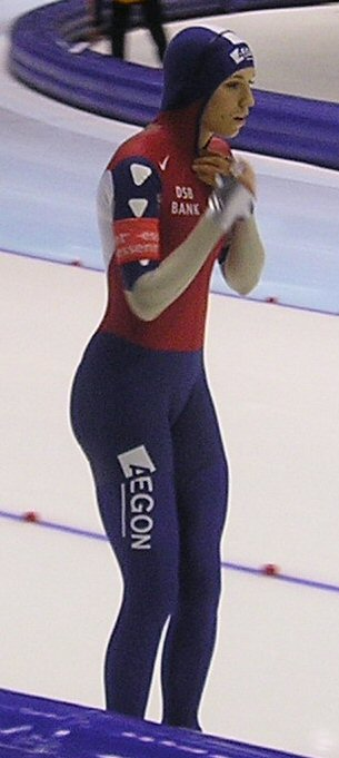 Annette Gerritsen (NED) at a World Cup in Thialf (Heerenveen, The Netherlands)